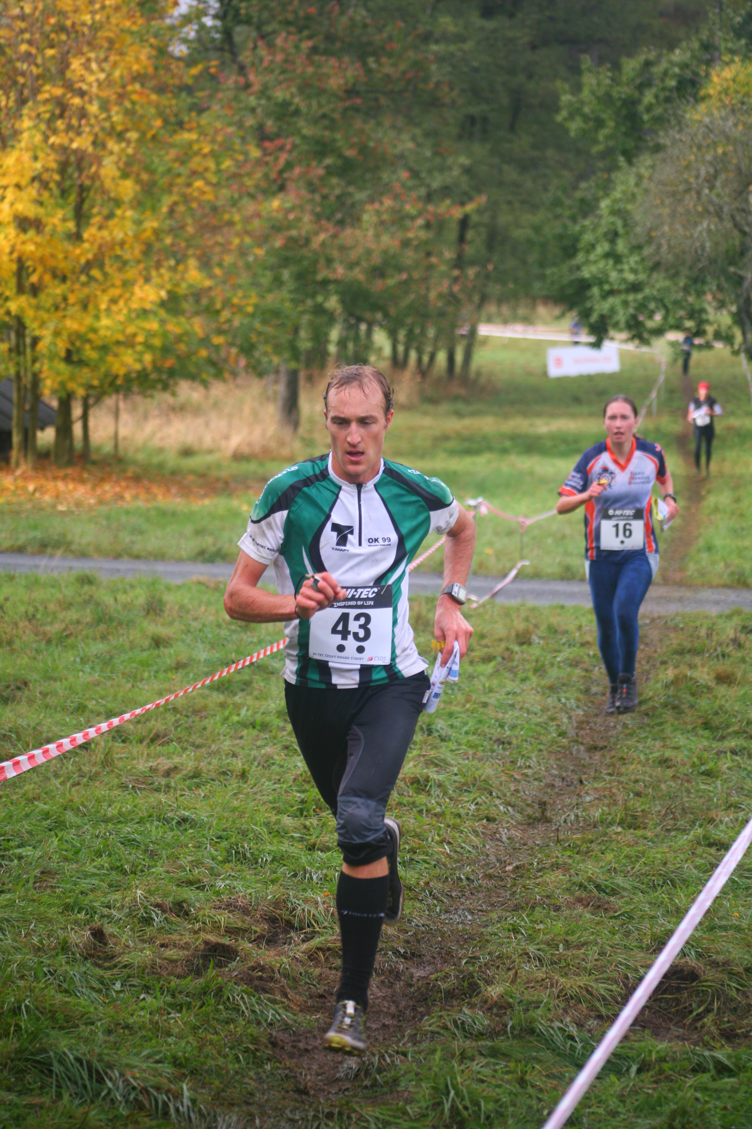 In 2011 Baptiste Rollier took part in Czech Championship of teams, in colours of OK99 Hradec Králové